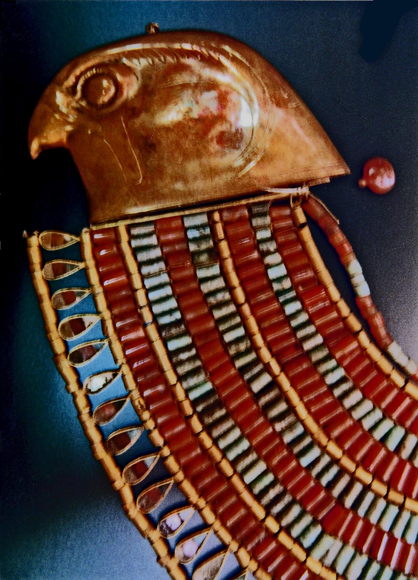 Part of the treasure discovered in the tomb Nubhetepti-khered in Dashur. Egyptian Museum, Cairo